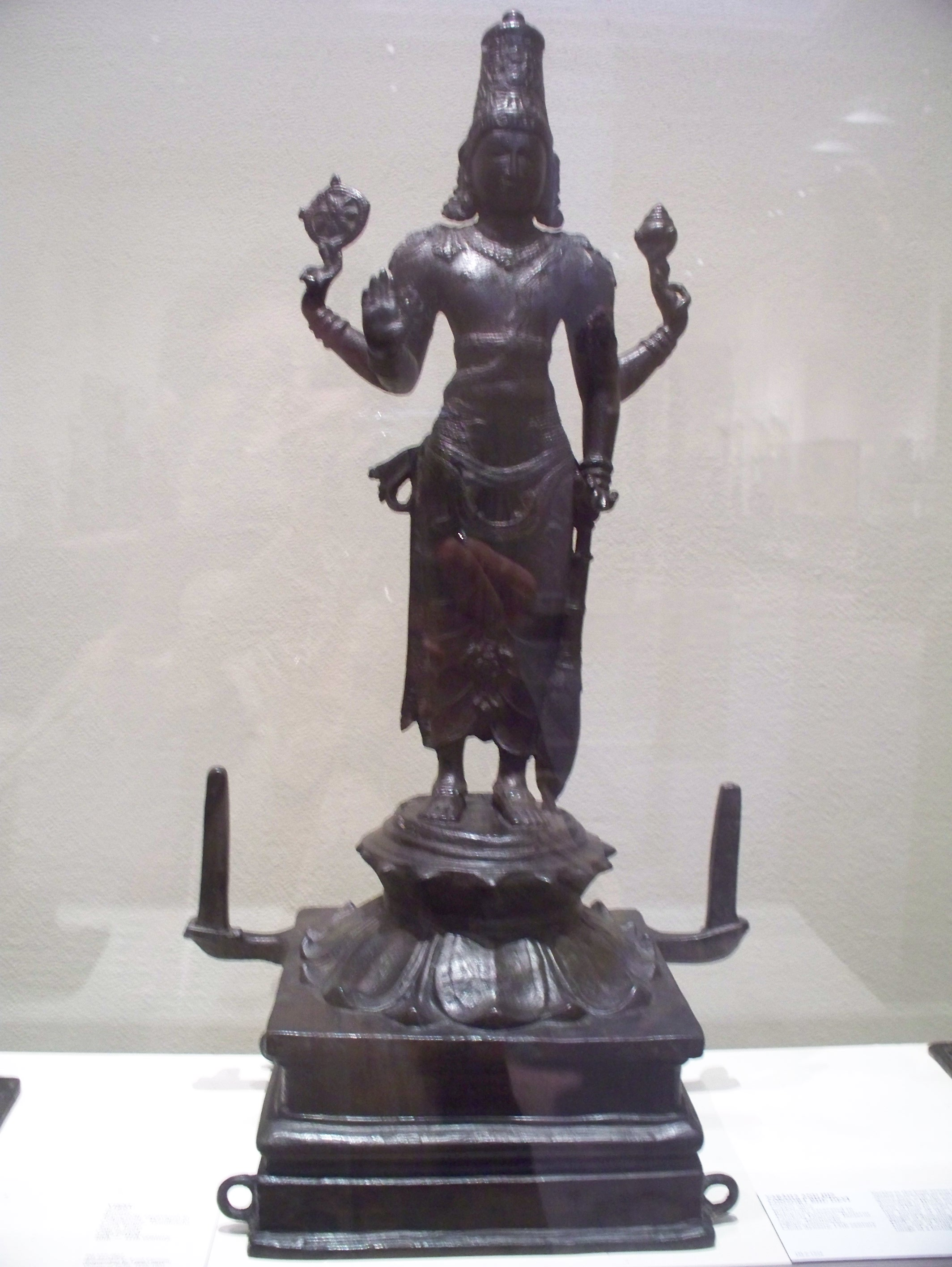 Reportedly excavated at Coimbatore, Tamil Nadu, South India. The label of the statue states: VIṢṆU Bronze Reportedly excavated at / Coimbatore, Tamilnadu, / South India Cōḷa period, 10th–11th century IM 127-1927 Bequeathed by Lord Curzon, / Viceroy of India, 1898–1905 Wikipedia Loves Art at the Victoria and Albert Museum This photo of item # [1] at the Victoria and Albert Museum was contributed under the team name "Opal_Art_Seekers_4" as part of the Wikipedia Loves Art project in February 2009. Victoria and Albert Museum The original photograph on Flickr was taken by Forever Wiser—please add a comment to the original Flickr page whenever a use has been made on Wikipedia or another project. Project galleries on Flickr: this institution, this team